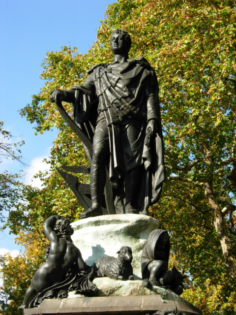 This statue was created by Sir Richard Westmacott and erected in 1809. Francis Duke of Bedford was known for his work on agricultural improvements and he is depicted with his hand resting on a plough - note also the sheep on the plinth. The statue faces one of Charles James Fox by the same arist in Bloomsbury Square at the other end of Bedford Place.